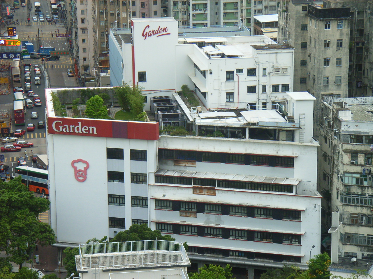 深水埗區石硤尾 嘉頓山景觀 - 嘉頓中心